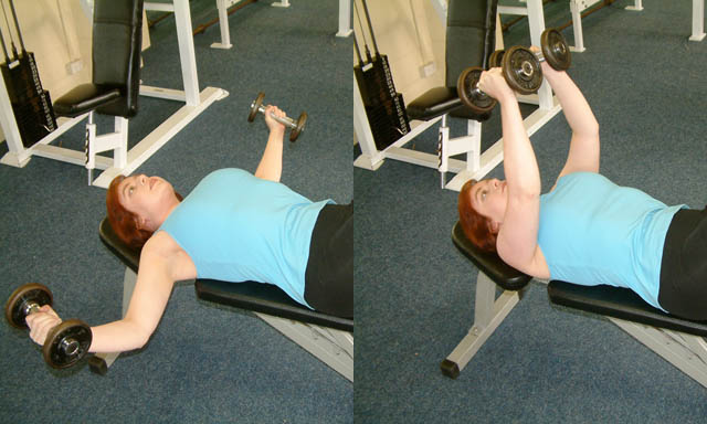 Thanks go to the model, Emily.